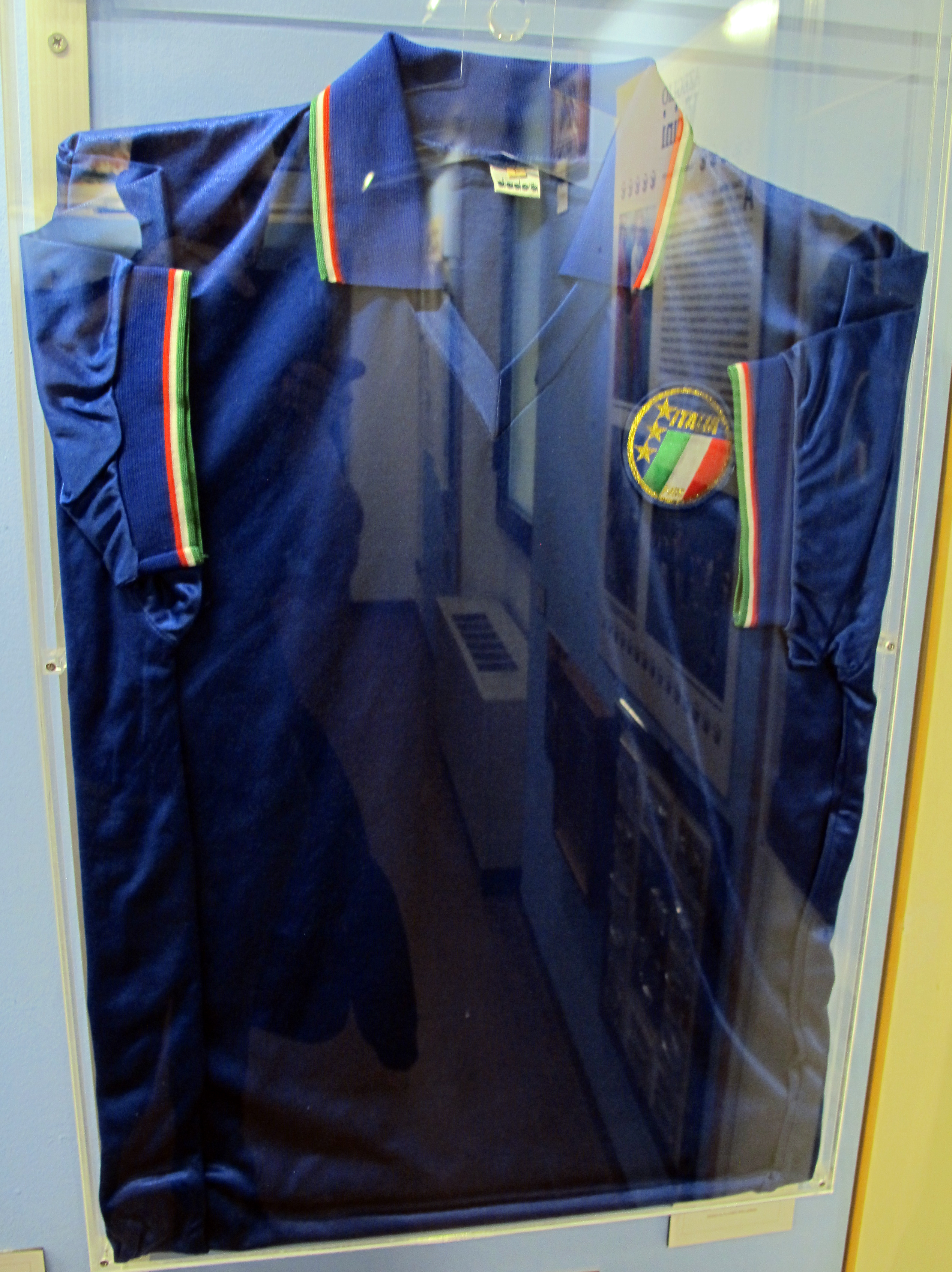 Collections of the Museo del Calcio (Florence)